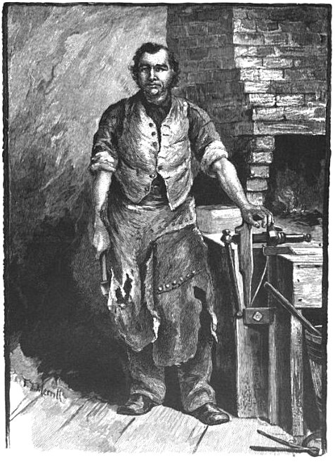 Illustration for the poem "The Village Blacksmith" by American poet Henry Wadsworth Longfellow. The image is captioned "The smith a mighty man is he," referring to the first stanza of the poem. Published by E. P. Dutton & Company (New York).